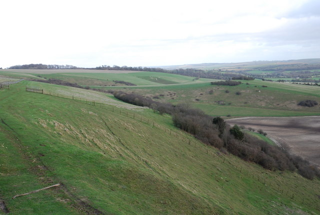 View towards Gallows Hill from Woodlands Down